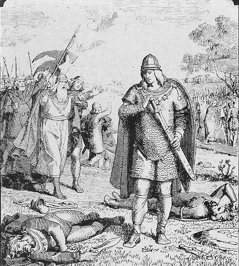 Illstration of legendary king